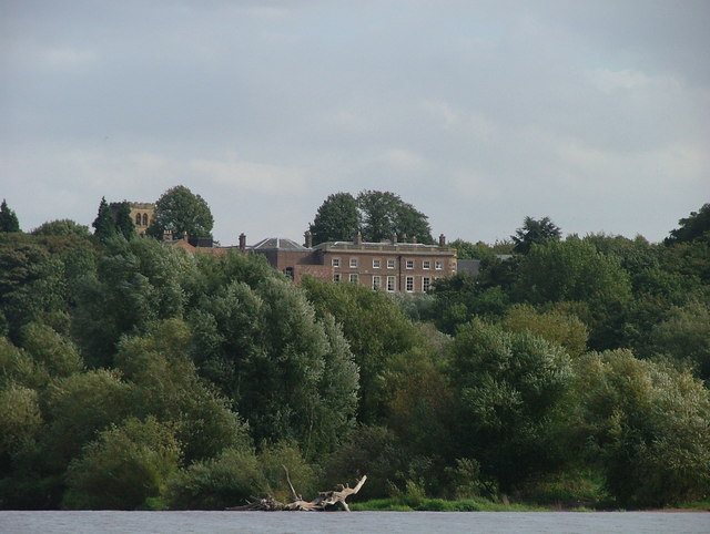 A view of historic Clifton Hall from Beeston Marina